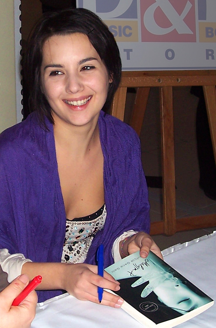 Melissa Panarello signing autographs in Istanbul in 2006